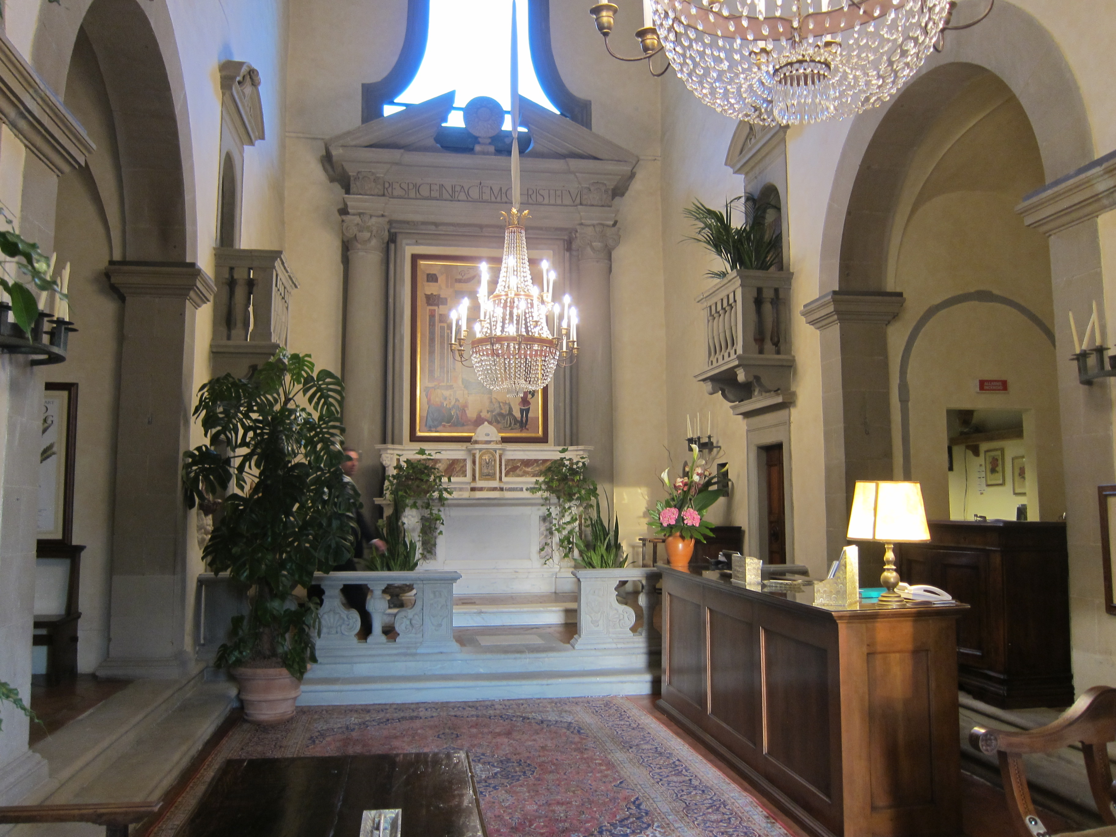 see above